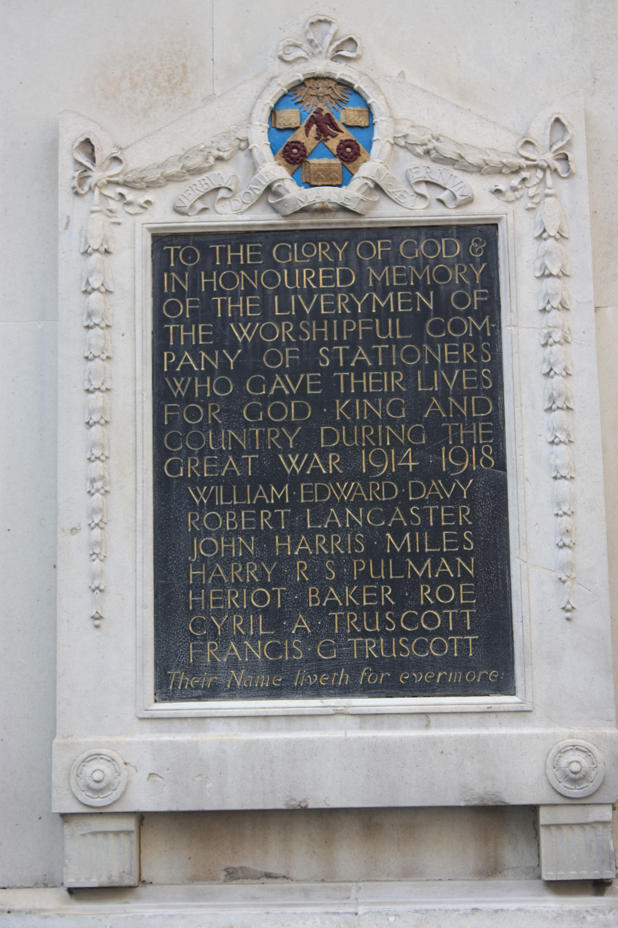 War Memorial to London's Liverymen (on Stationers Hall, west of Paternoster Square)